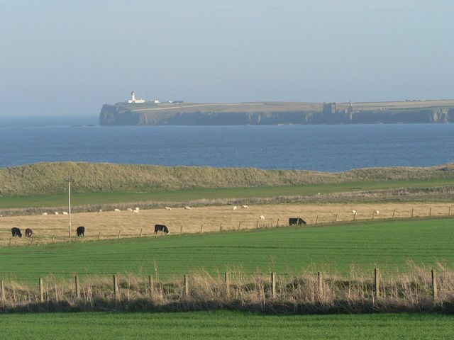 Noss Head: lighthouse from across Sinclair’s Bay A smashing view towards the northern rocks of Noss Head.